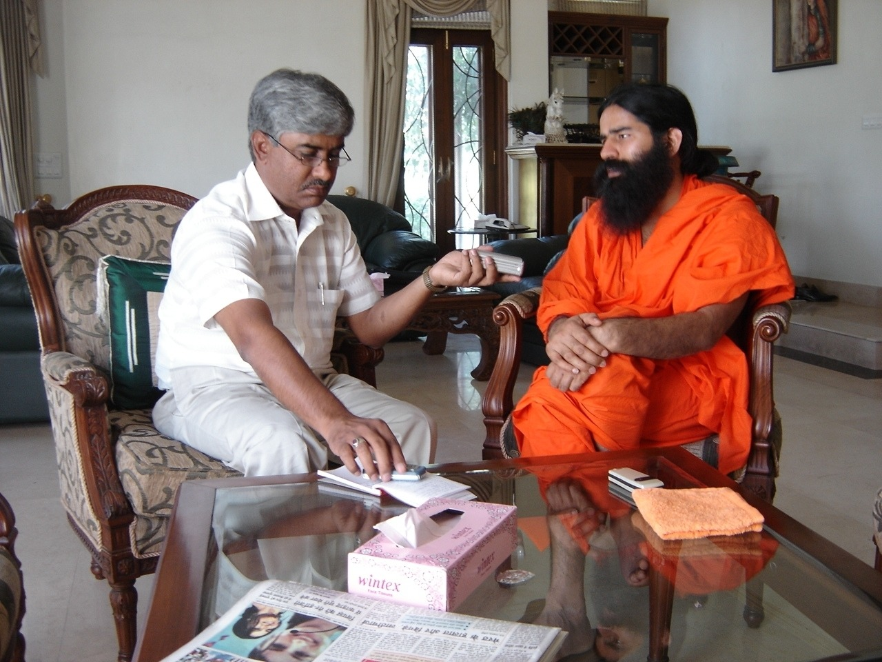 Omkar Choudhary and Baba Ramdev interview